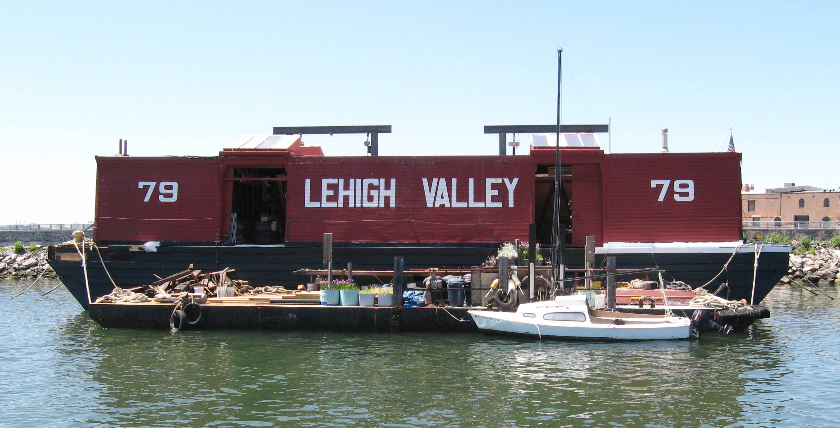 Looking west on a sunny midday at barge of Lehigh Valley Railroad now a museum west of Conover Street and Fairway in Red Hook, Brooklyn. Replaced June 29, 2008 in the above railroad article with File:Lehigh Valley Red Hook jeh.JPG.